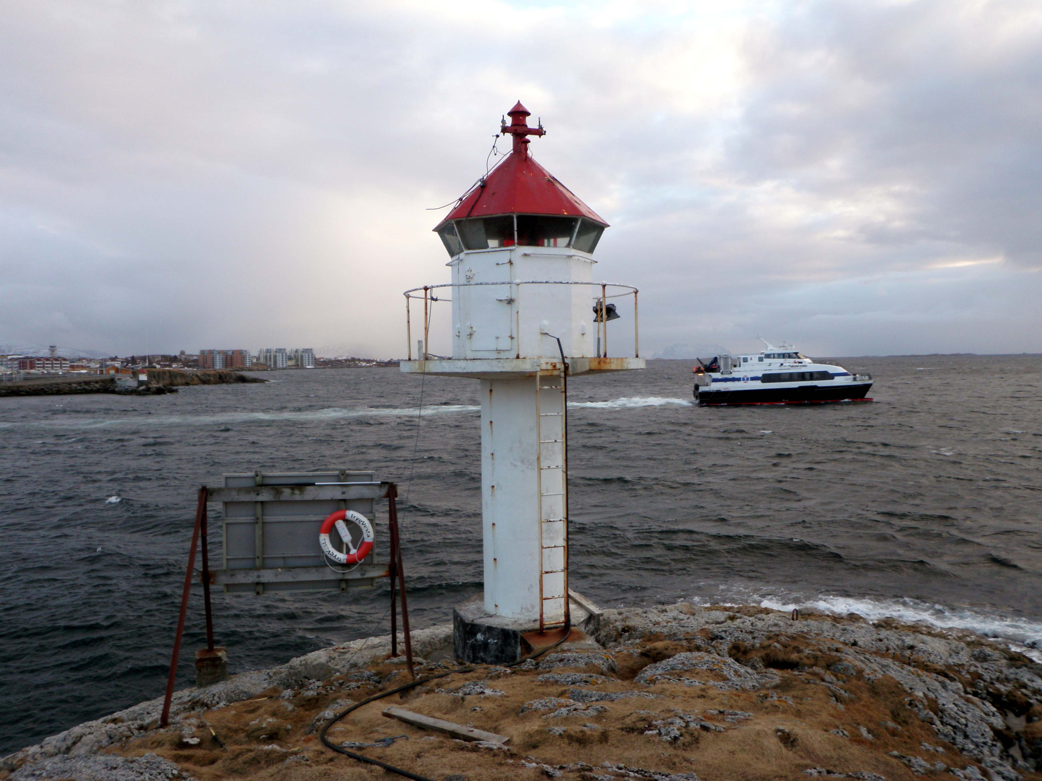 Present-day Nyholmen Lighthouse in Bodø, Nordland, Norway. Torghatten ASA's Vågsfjord is passing by in the background.